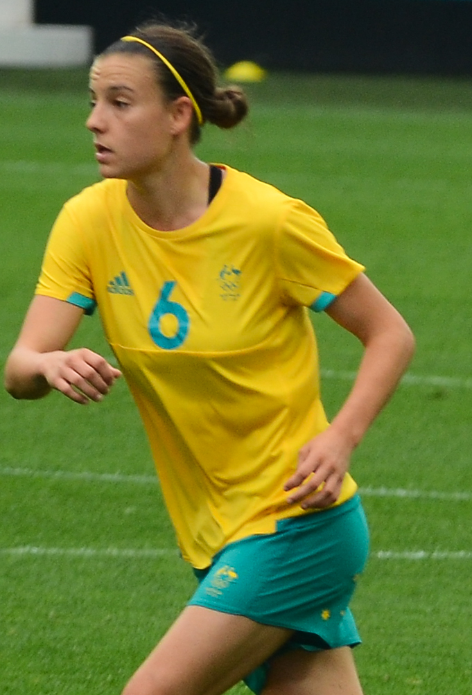 Canada versus Australia at the 2016 Summer Olympics, 3 August 2016.